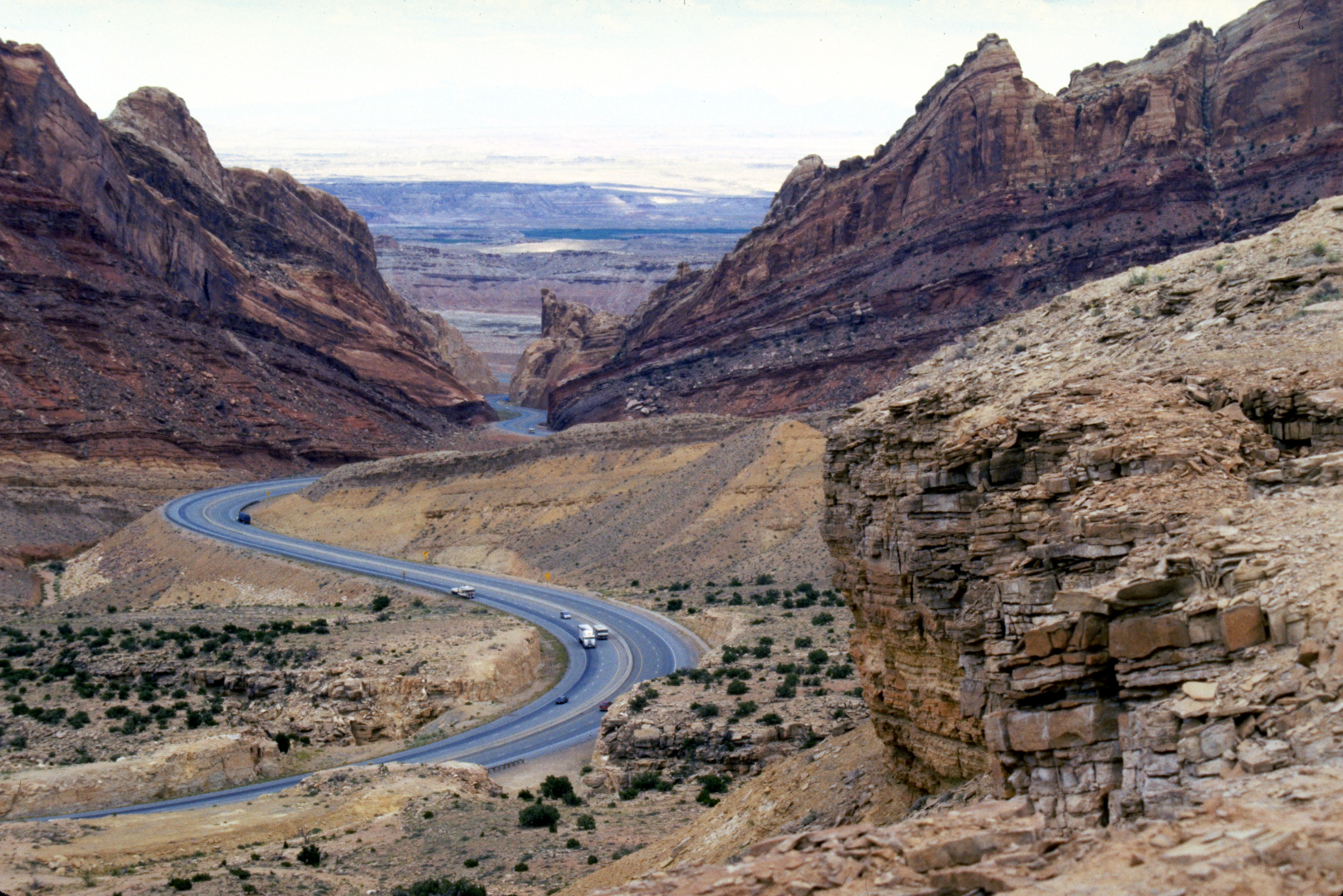 Interstate 70 dividing the San Rafael Swell, Utah.